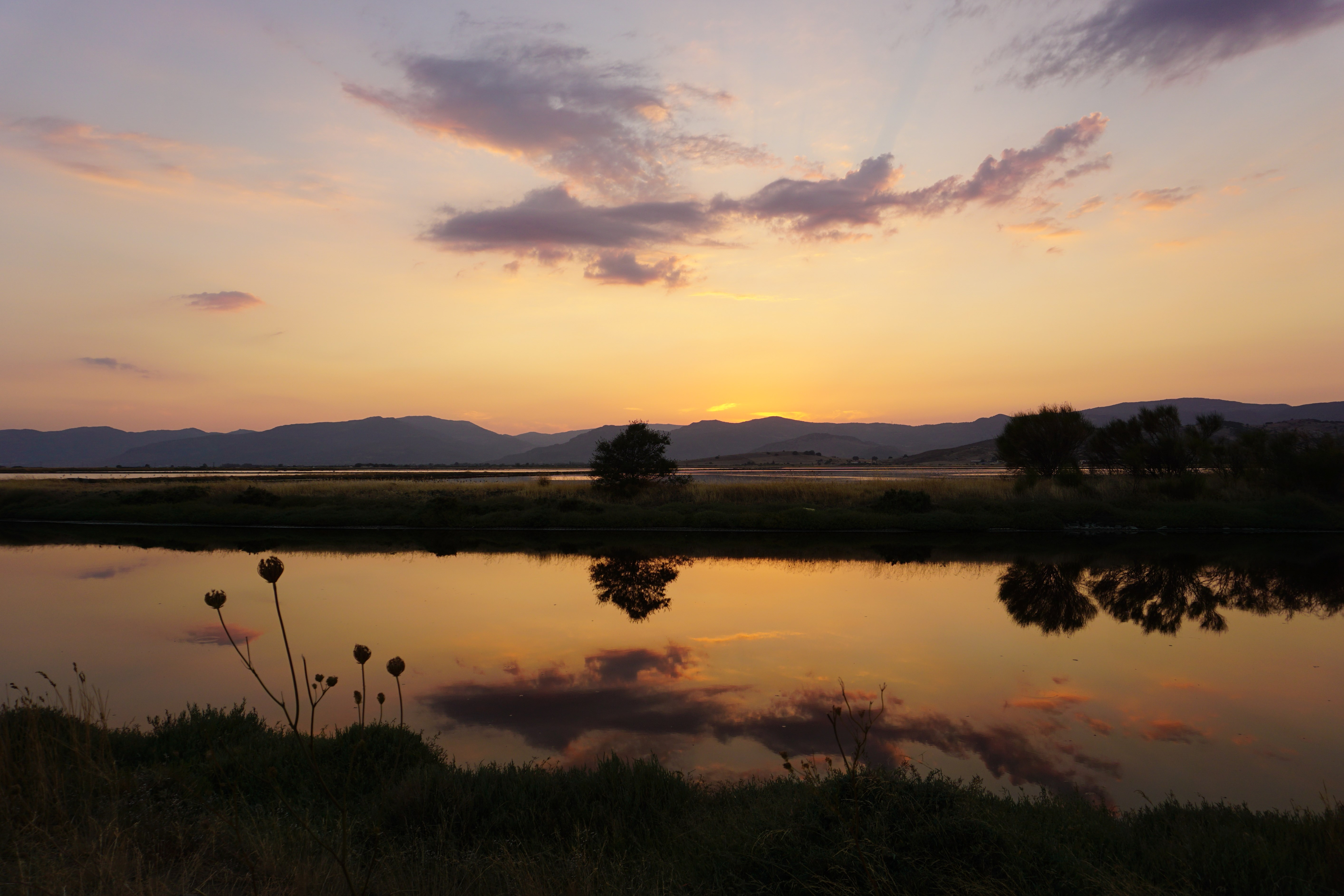 This is a photography of Natura 2000 protected area with ID GR4110007